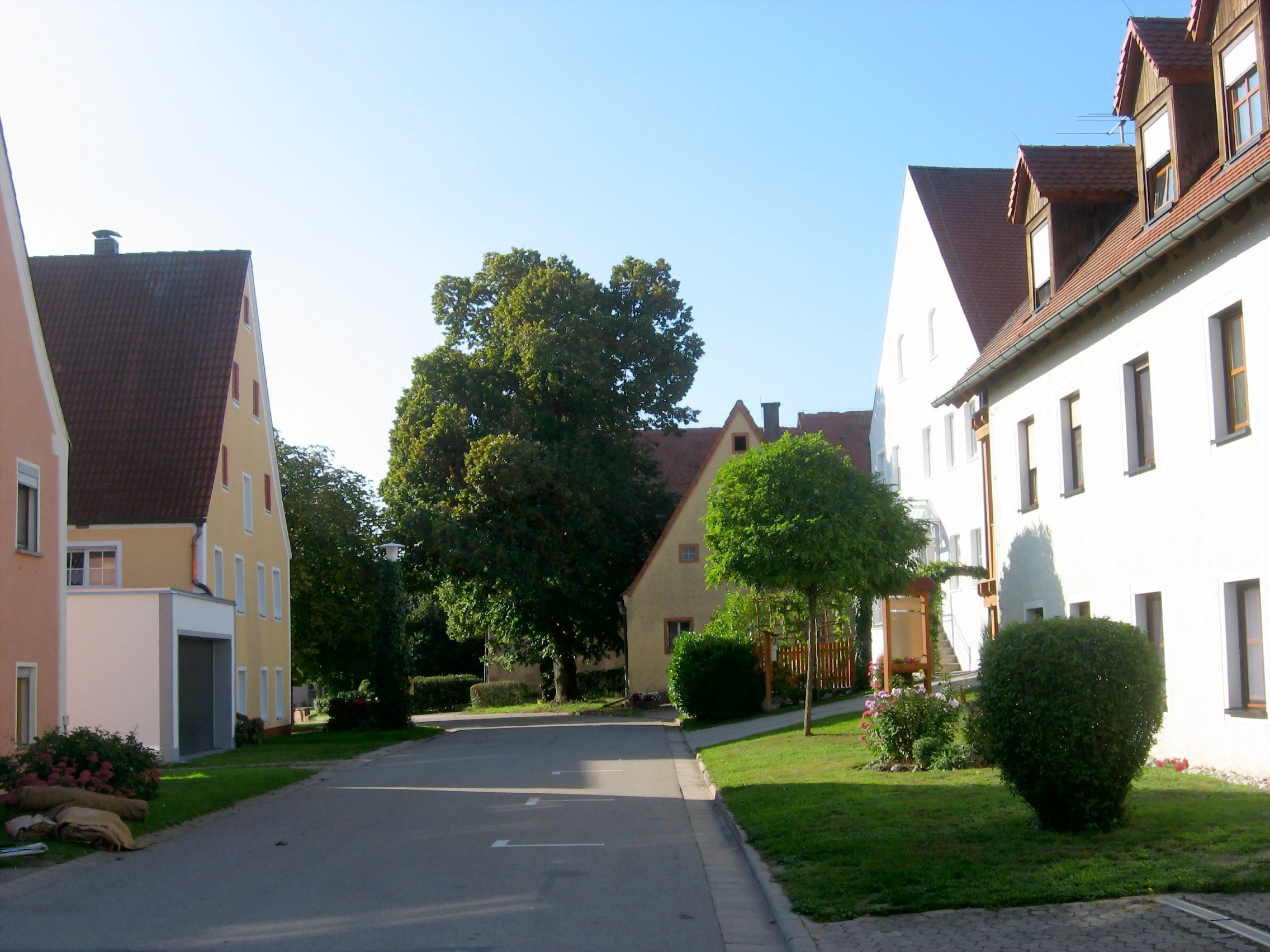 Ortsmitte von Ottmannsberg (Bayern) Richtung Westen